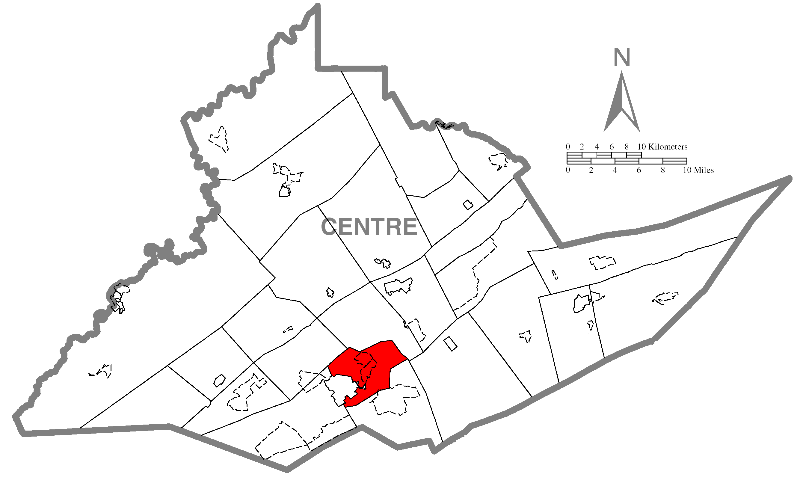 A map of Centre County showing College Township, Pennsylvania (alternate) highlighted on the map.